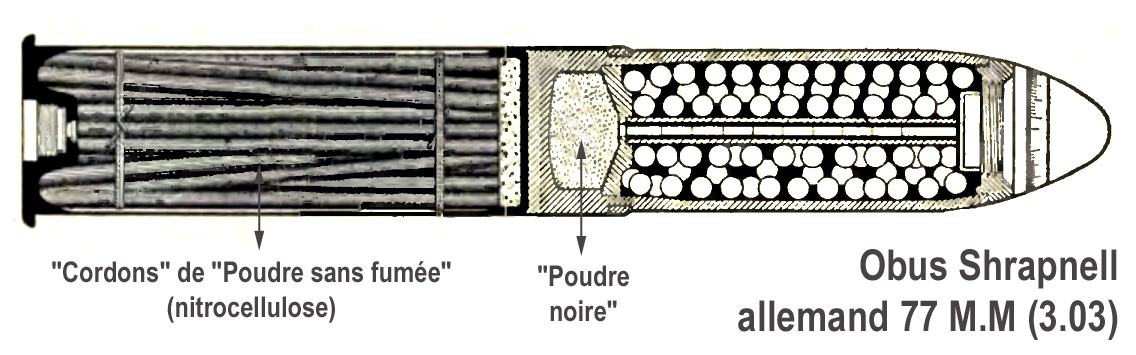 shrapnel shell, first world war. (Lead and mercury of those shells were an important source of pollution during this war and after.